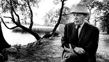 Gunnar Ekelöf 1967.